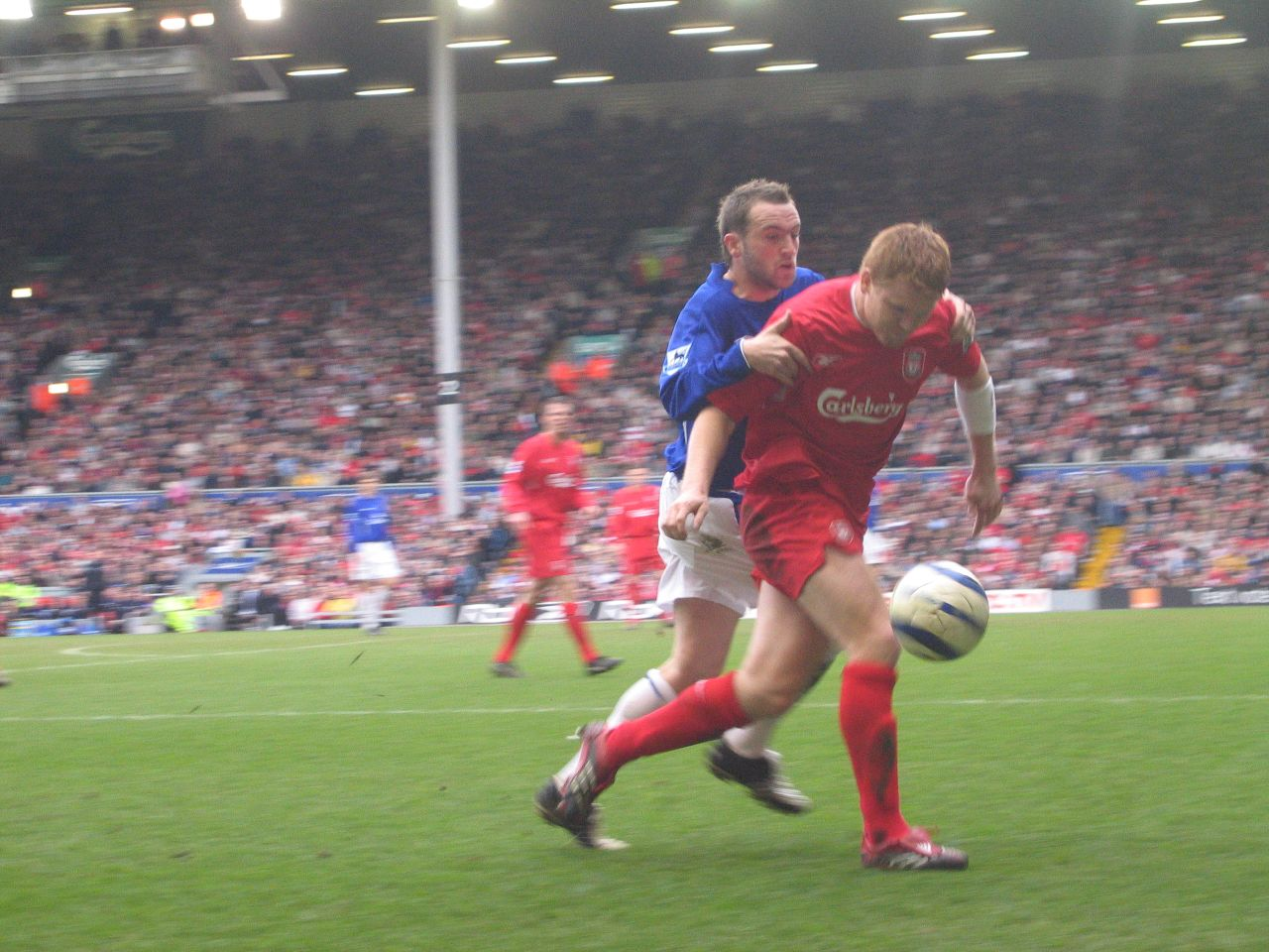 Riise on the ball (Liverpool-Everton)